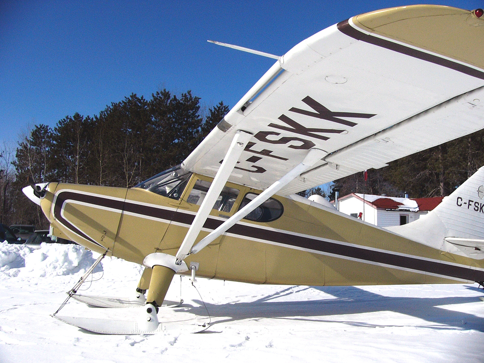 A Canadian Stinson 108-3 (C-FSKK) with gear adaptation for snow. The partial span leading edge slot is visible. I took this photo and release it to the public domain